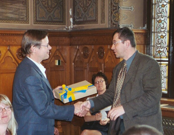 Jan Dahlin (1950-2009), Swedish archivist and head of the Regional State Archives in Lund. Dahlin is seen to the left in the picture presenting a gift to his colleague at the National Archives of Hungary during a visit in Budapest by Swedish archivists.